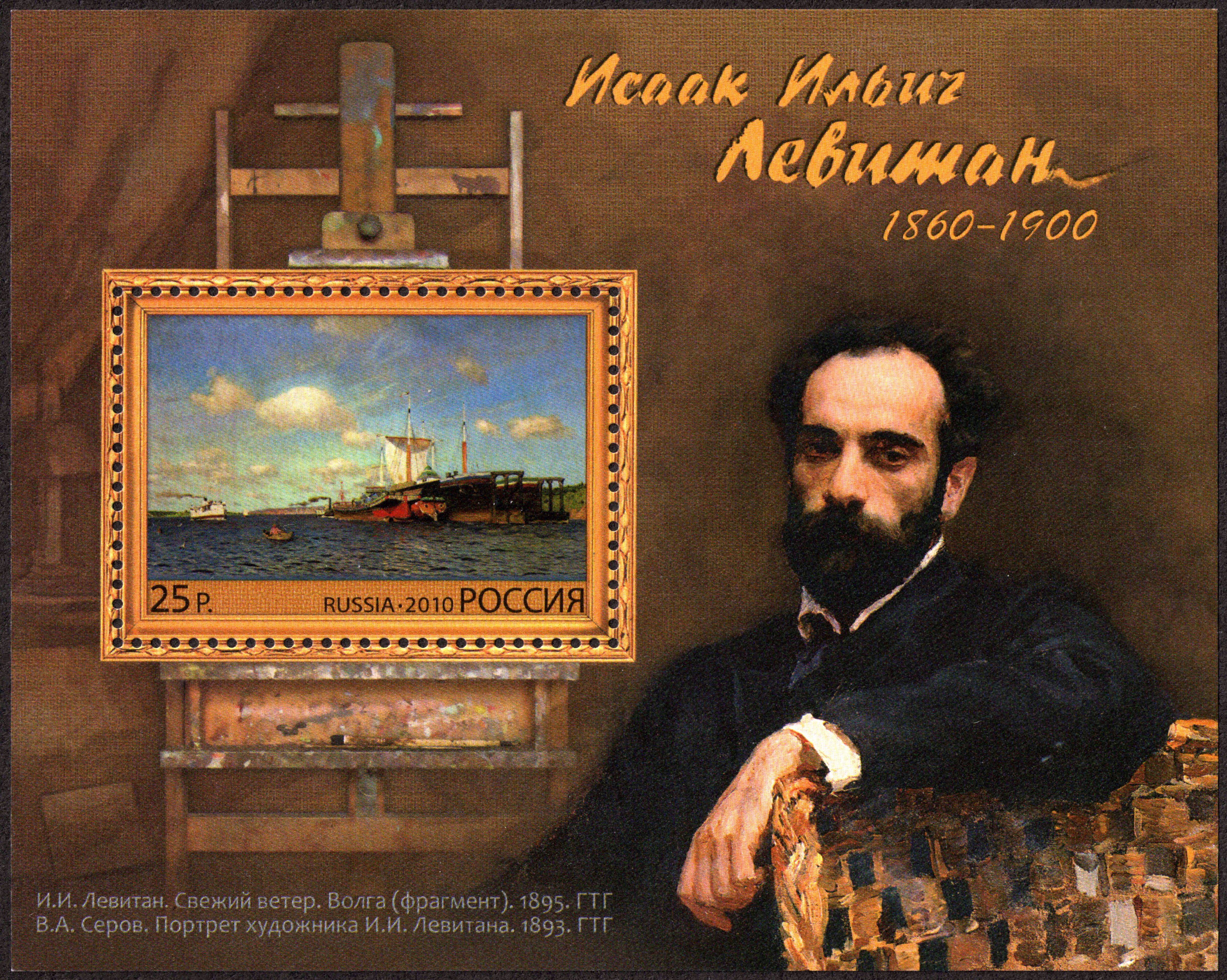 150th birth anniversary of the Russian landscape painter Isaac Levitan (1860–1900). The souvenir sheet of Russia, 1 stamp×25.00 Rubles, 30 August 2010, PTC Marka Catalogue No 1440, Michel No 1672 (Block139). Coated paper. Offset printing, varnish coating. Perforation: frame 12×12½. The size of the souvenir sheet: 102×82 mm. The size of the stamp: 42×30 mm. Print run: 110,000.The stamp. Fresh Wind. Volga by Isaac Levitan. 1895.The margins of the miniature sheet. The Portrait of the Painter Isaac Levitan by Valentin Serov. 1893.